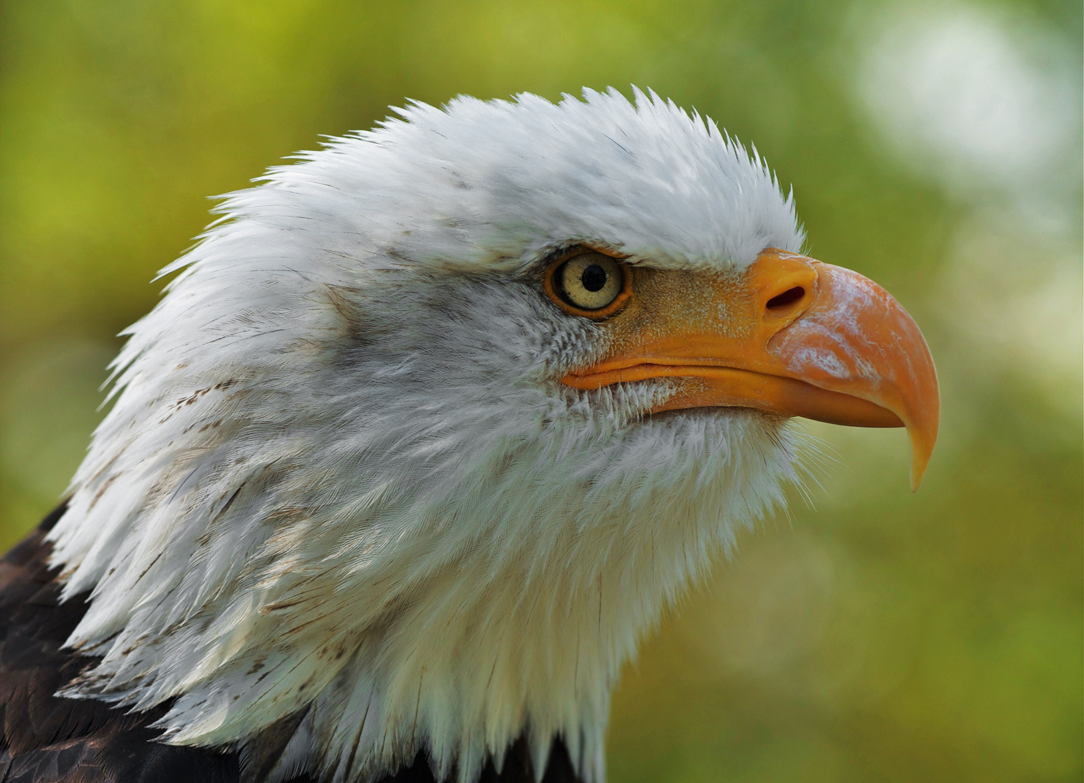 Bald eagle (Haliaeetus leucocephalus) on a bird show on the castle Augustusburg, Germany